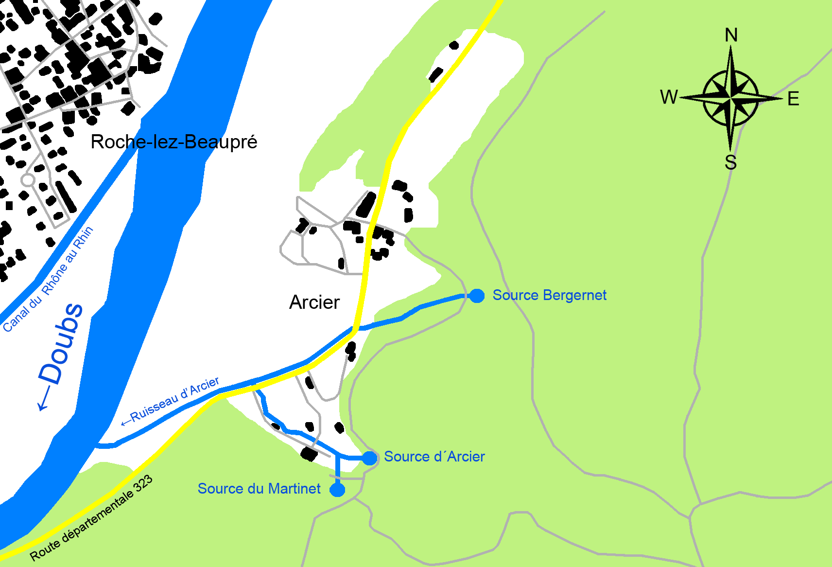 Map of the sources of Arcier